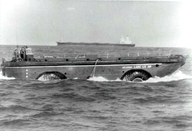 A LARC-LX (BARC) amphibous vehicle at Sea.